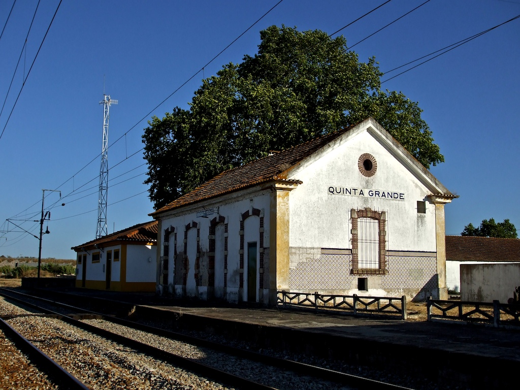 Railway Station of Coruche